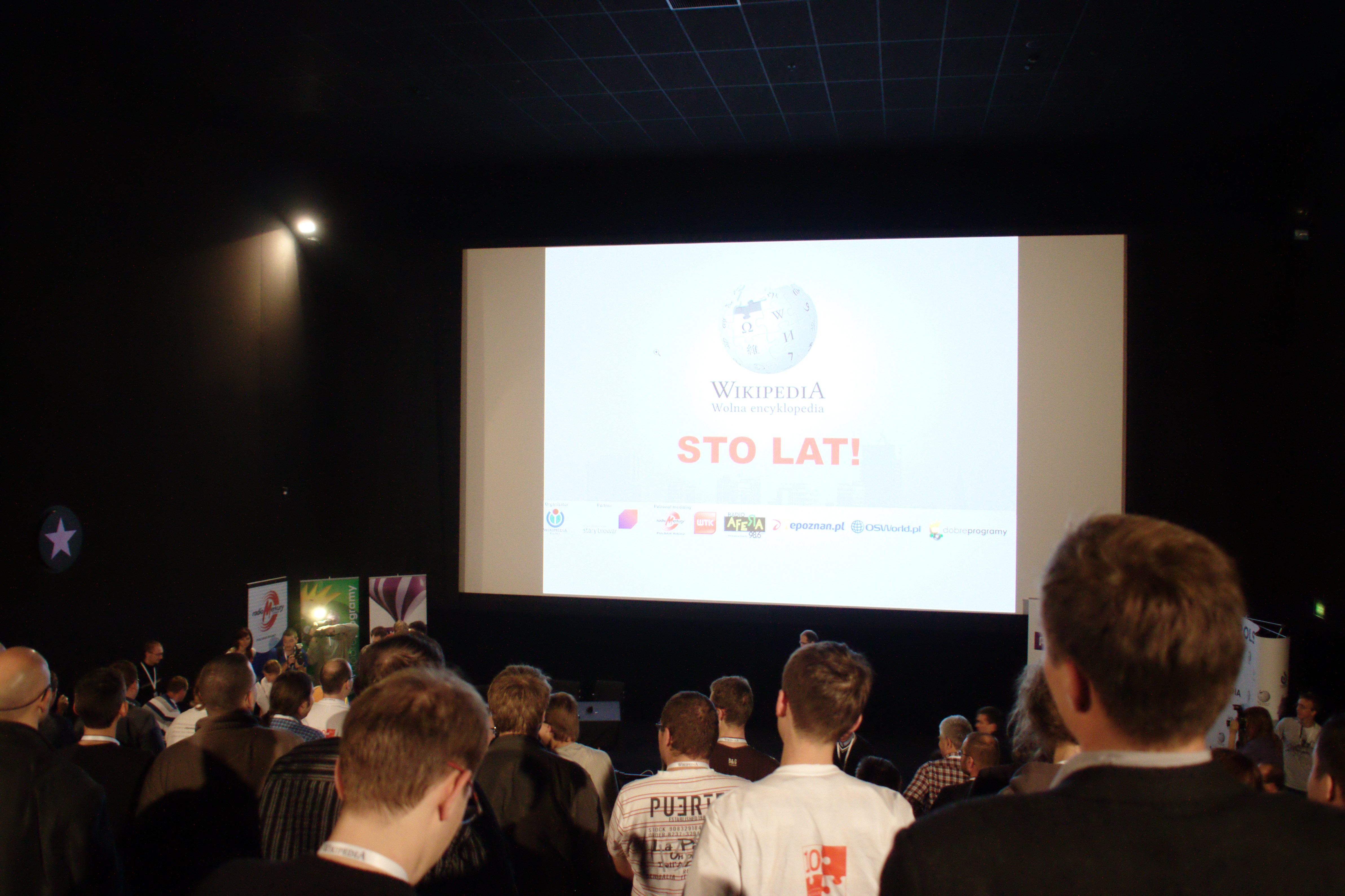 Attenders of the 10 years of Polish Wikipedia conference in Poznań singing polish song "sto lat", Poland